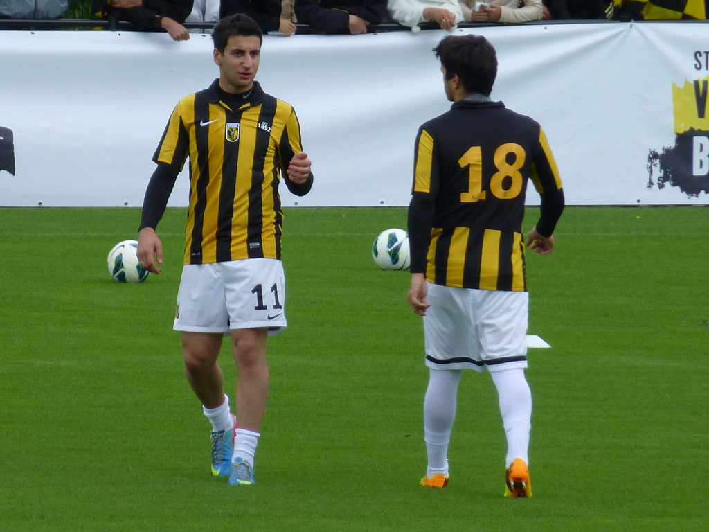 Giorgi Chanturia and Valeri Qazaishvili at Vitesse's first official training of the season 2013/2014